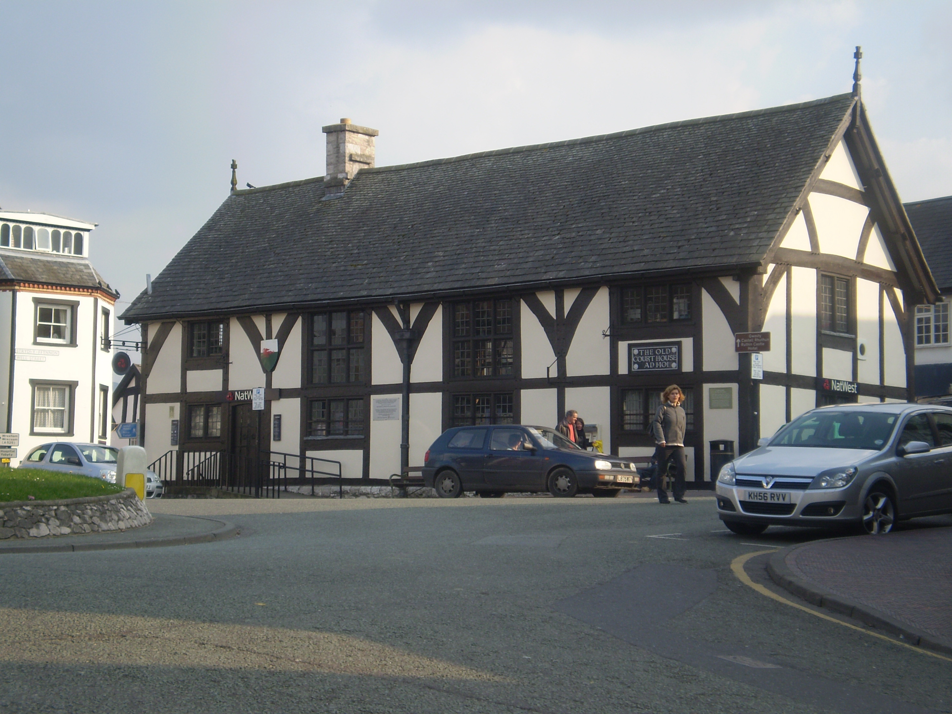 The Old Court House (now NatWest Bank) on St Peter's Square in Ruthin, Wales, was built in 1401, immediately after the town was razed in the opening action of Owain Glyndwr's rebellion. The remains of the gibbet, last used to execute a Catholic priest in 1679, are on the reverse side of the building.